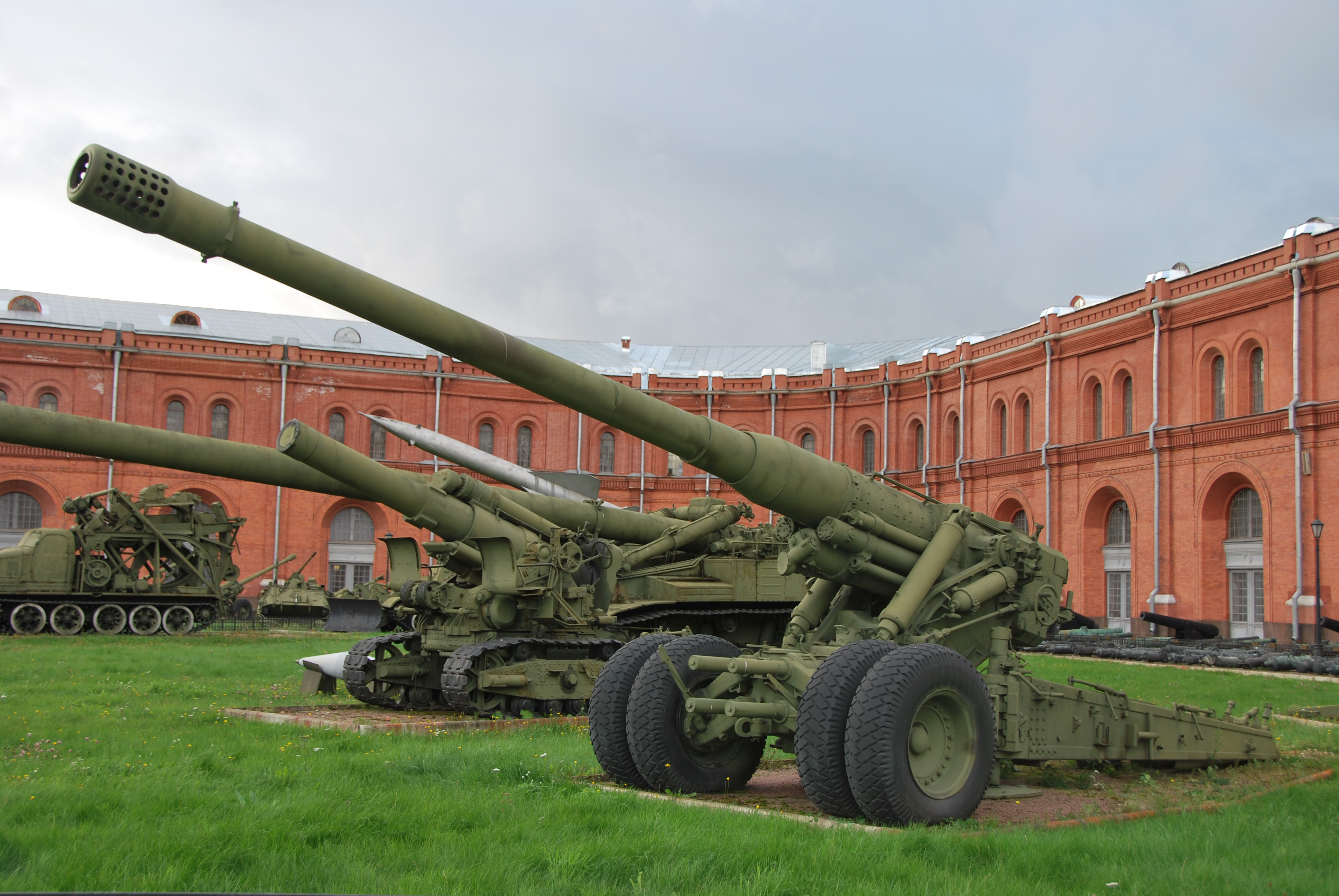 180 mm gun S-23 in Saint Petersburg Artillery museum